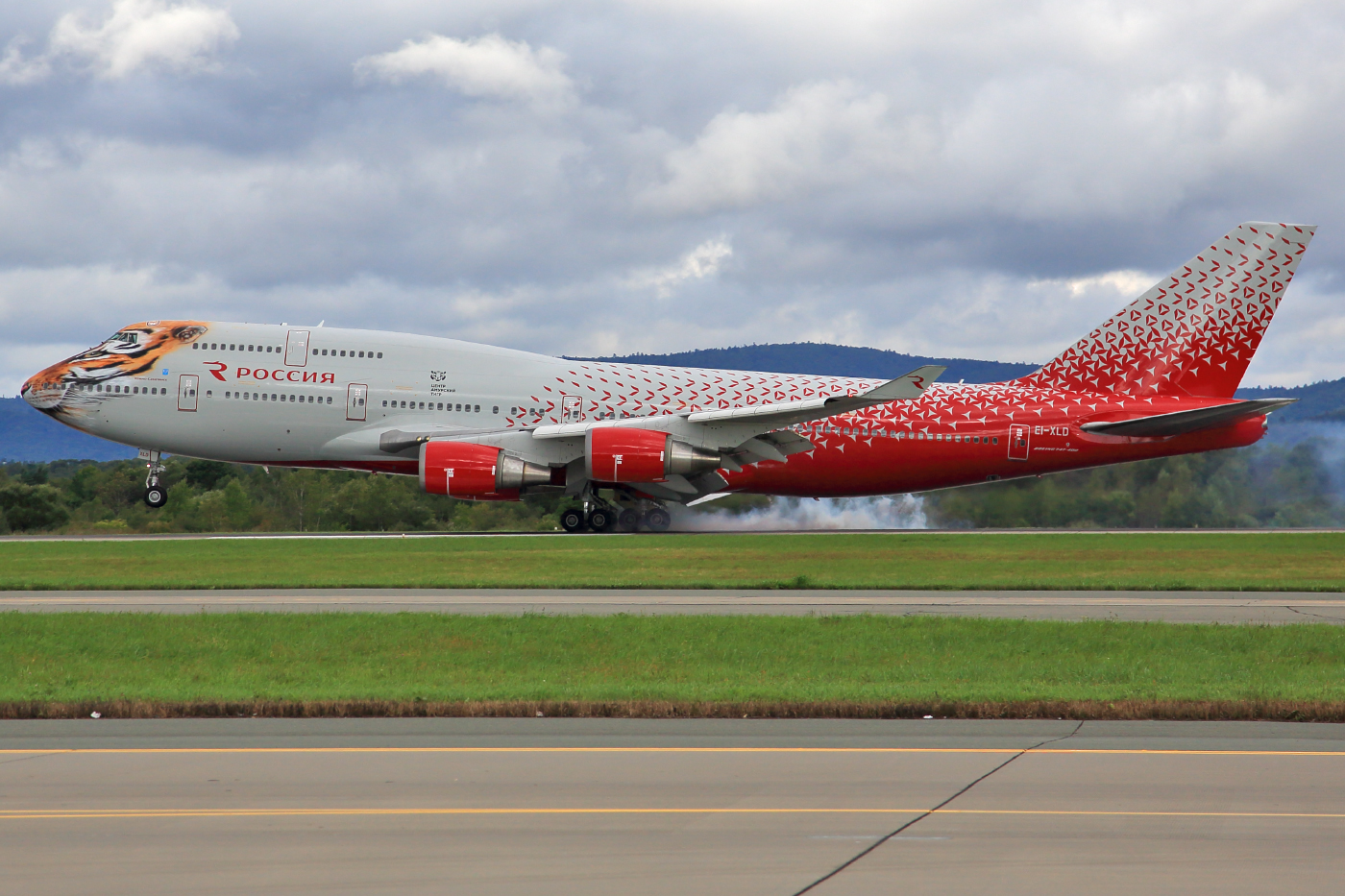 Boeing 747 of Rossiya Airlines at Vladivostok Airport